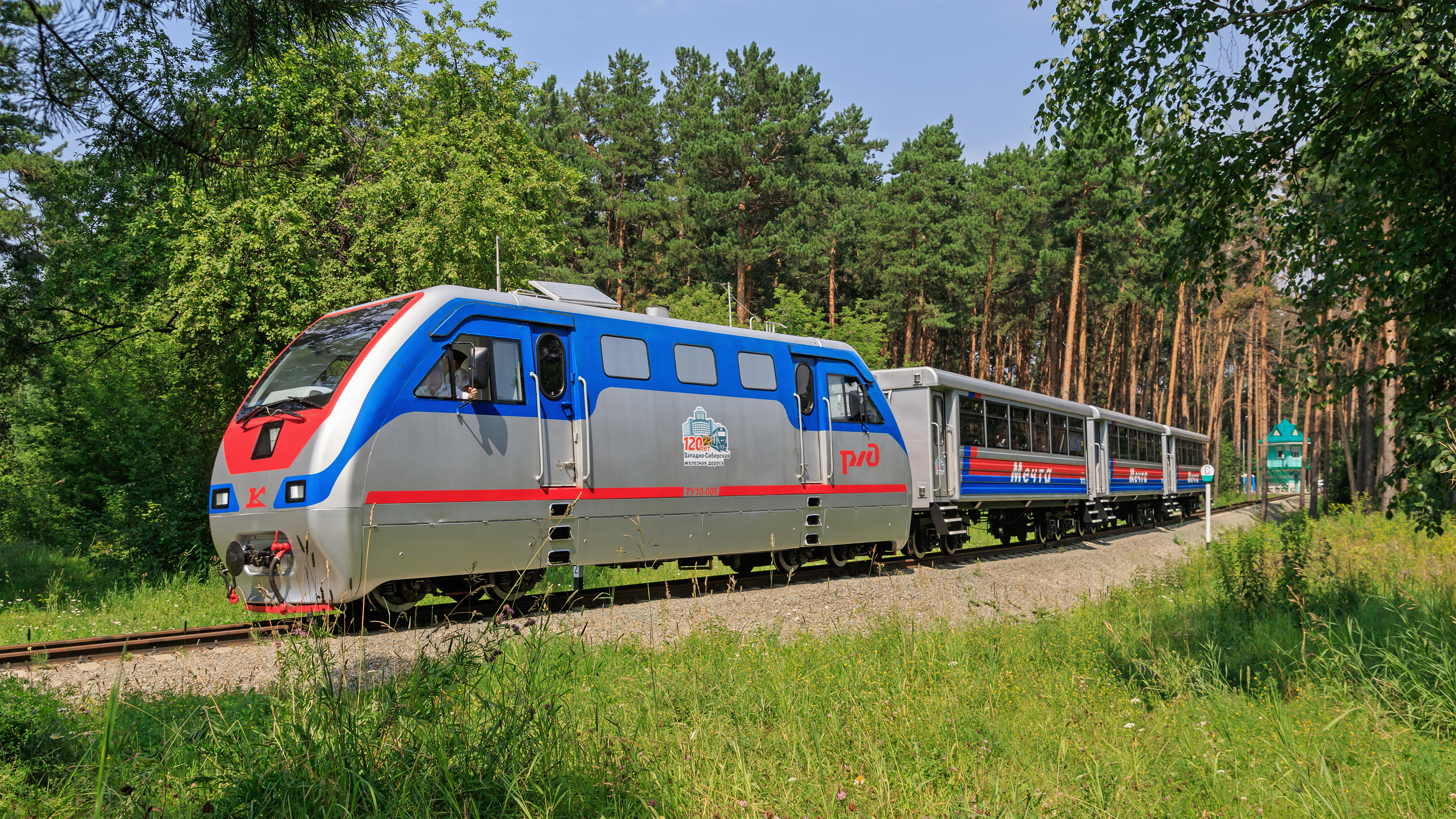 Children's railway of Zaeltsovsky Park in Novosibirsk, Russia